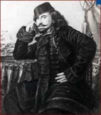 Nikolae Vogoride.